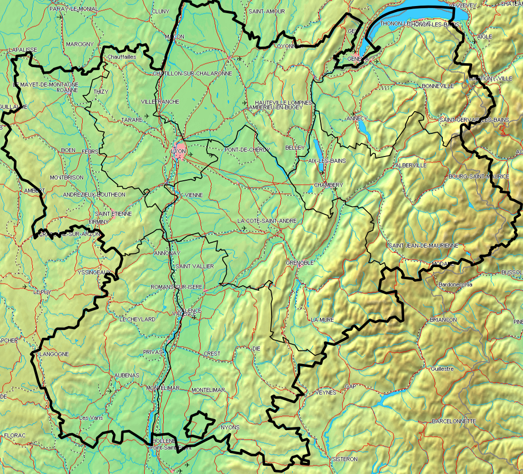 Historic map of railways in the Rhône-Alpes région.